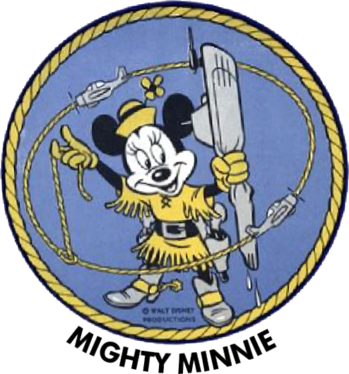 Insignia of the U.S. Navy escort carrier USS Mindoro (CVE-120), in 1950.